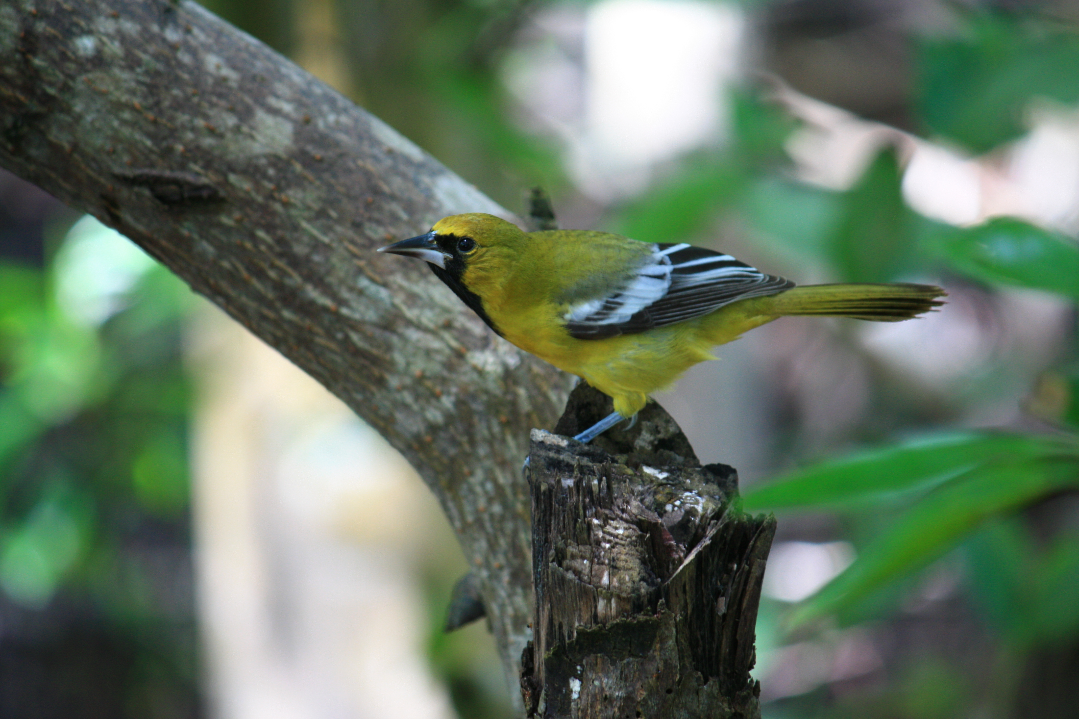 A juvenile Jamaican Oriole on San Andrés, Archipelago of San Andrés, Colombia.